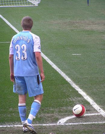 Michael Johnson playing for Manchester City. Cropped from original source.